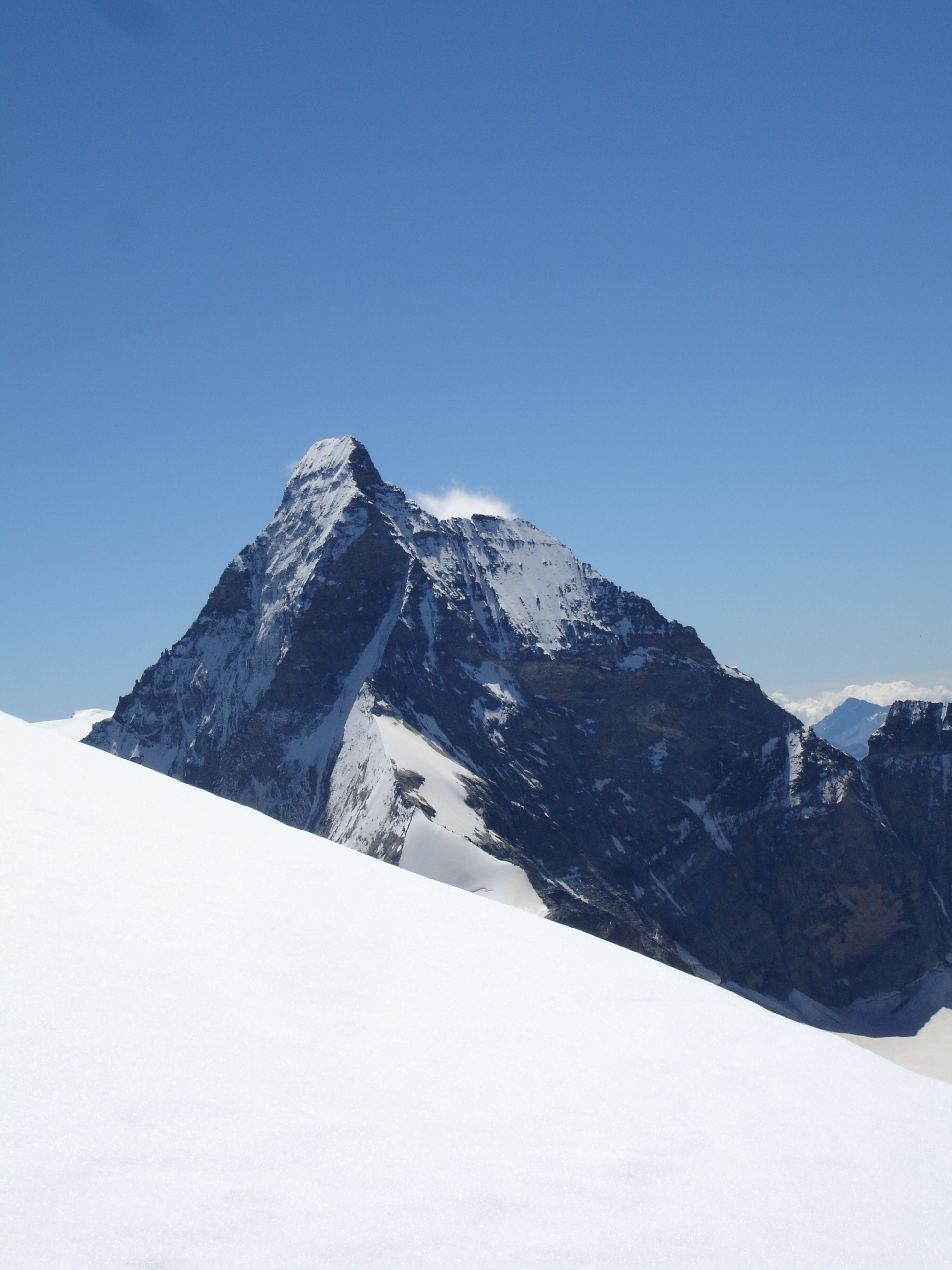 Cervin from the Dent Blanche